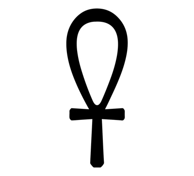 Kemetic symbol of Ankh. It represents the life and the force of the Netjer.